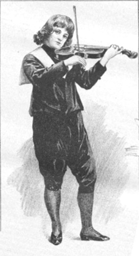 Annie Dirkens-Drews (1869-1942), German operette singer. Shown in a role of Paola Gordoni in an operette "Der Wunderknabe" by Eugen von Taund.